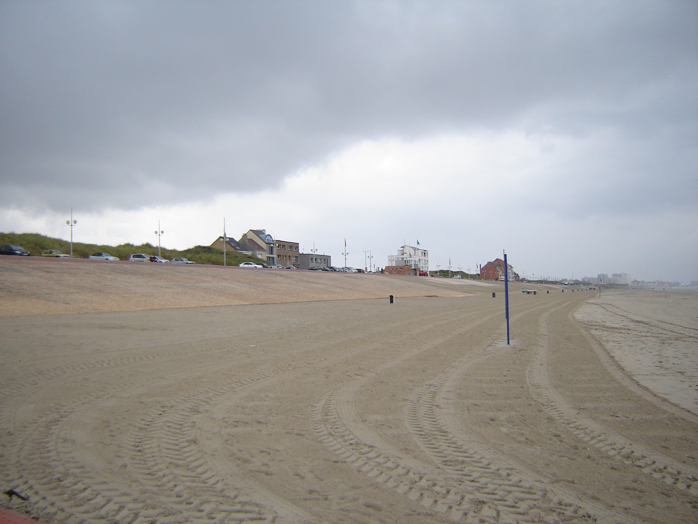 Beach and seawall of Leffrinckoucke (North Sea). View towards Leffrinckoucke and Malo-les-Bains. Leffrinckoucke, Nord, Nord-Pas-de-Calais, France